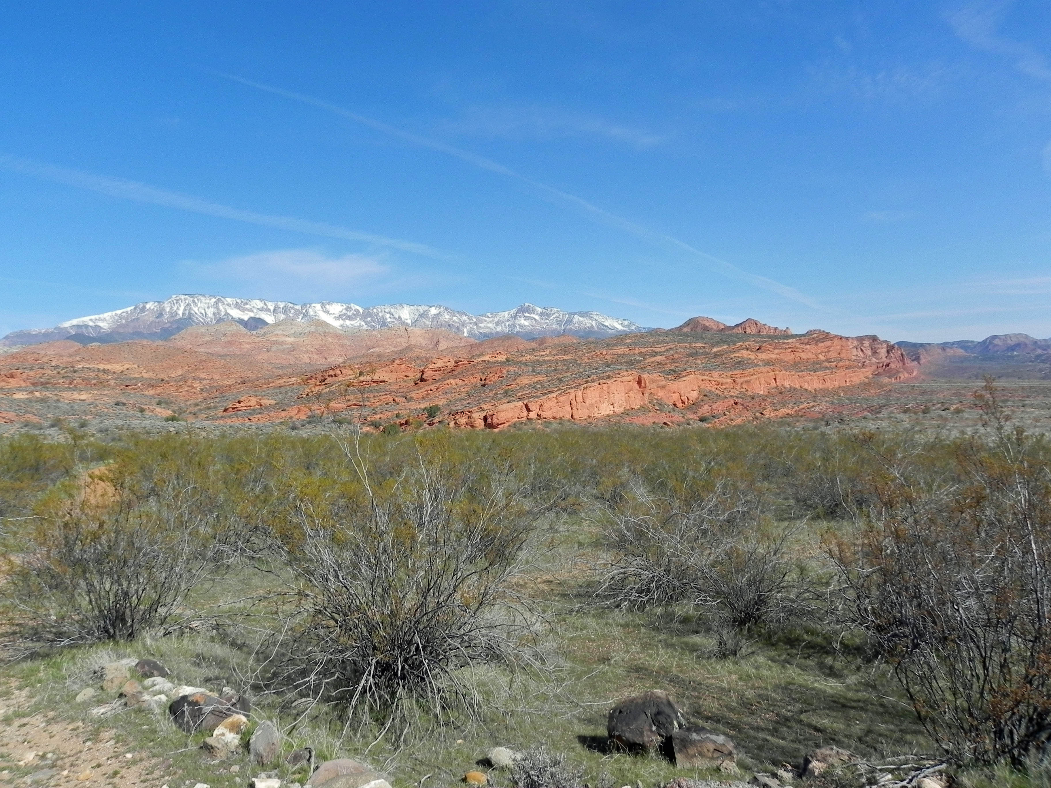 The Red Cliffs Desert Reserve and Pine Valley Mountains north of St. George, Utah — in March